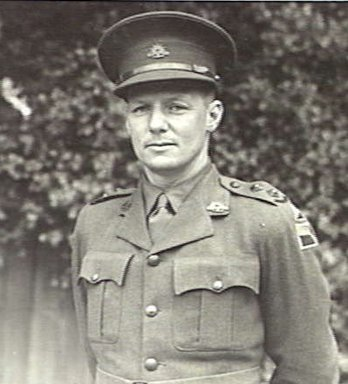 Harold Abbott (artist) - Lt. Harold Frederick Abbott (1906–1986), Australian War Artist, Melbourne, Vic., 1943-12-27